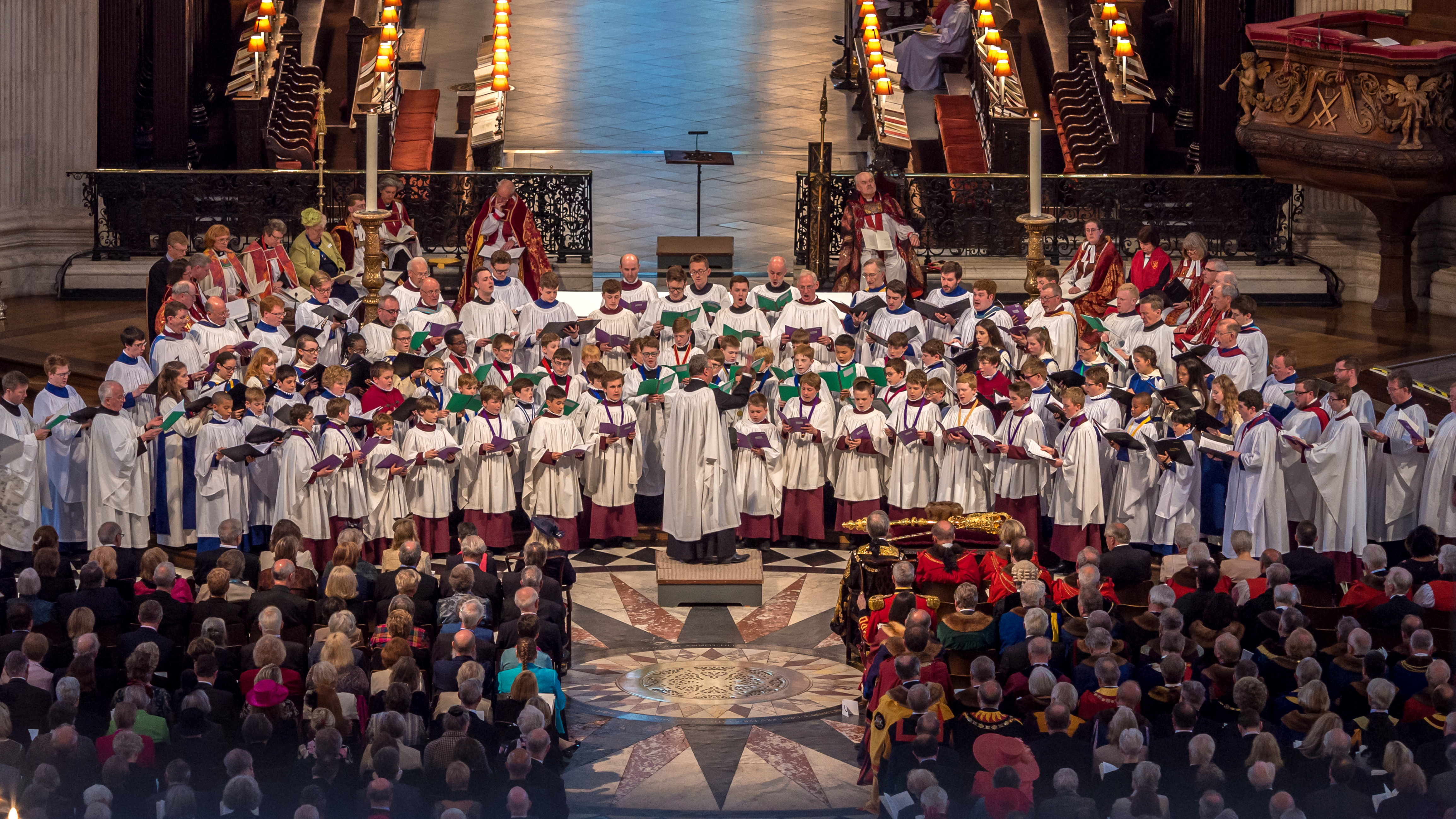 Combined choirs at a recent Sons & Friends Festival Service at St Paul's Cathedral